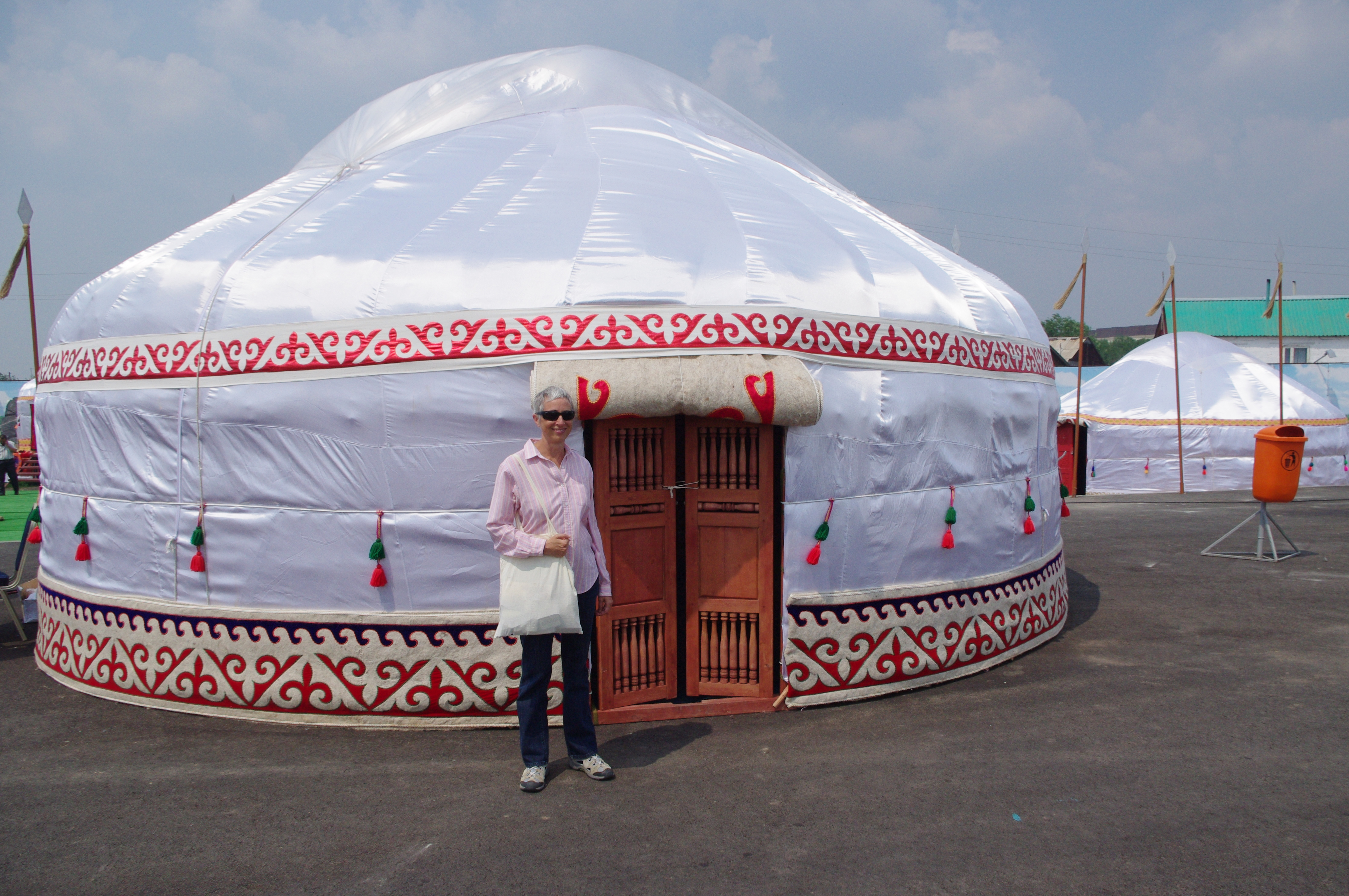 Here's Nyetta at the entrance to a yurt. While the slick nylon outer coating makes it look somewhat "Disney-ish", on the inside the yurt was very traditional, with thick felt walls and lots of woven decorations.